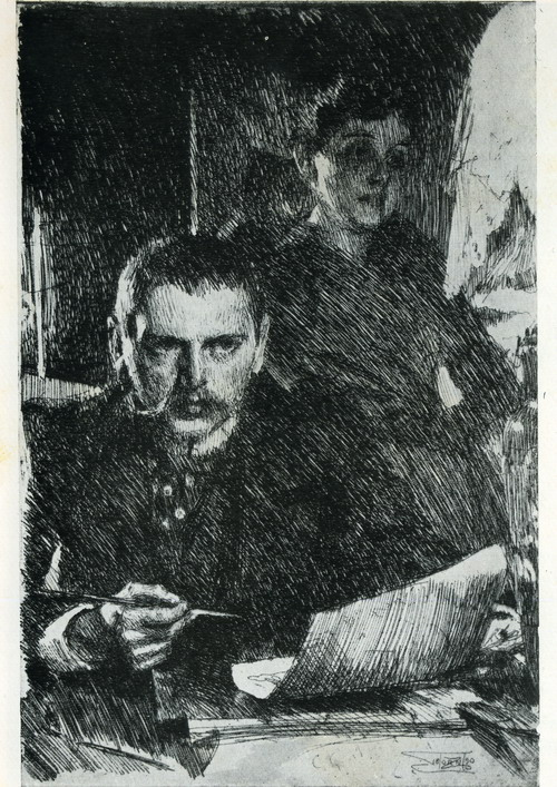 Anders Zorn with his Wife Emma